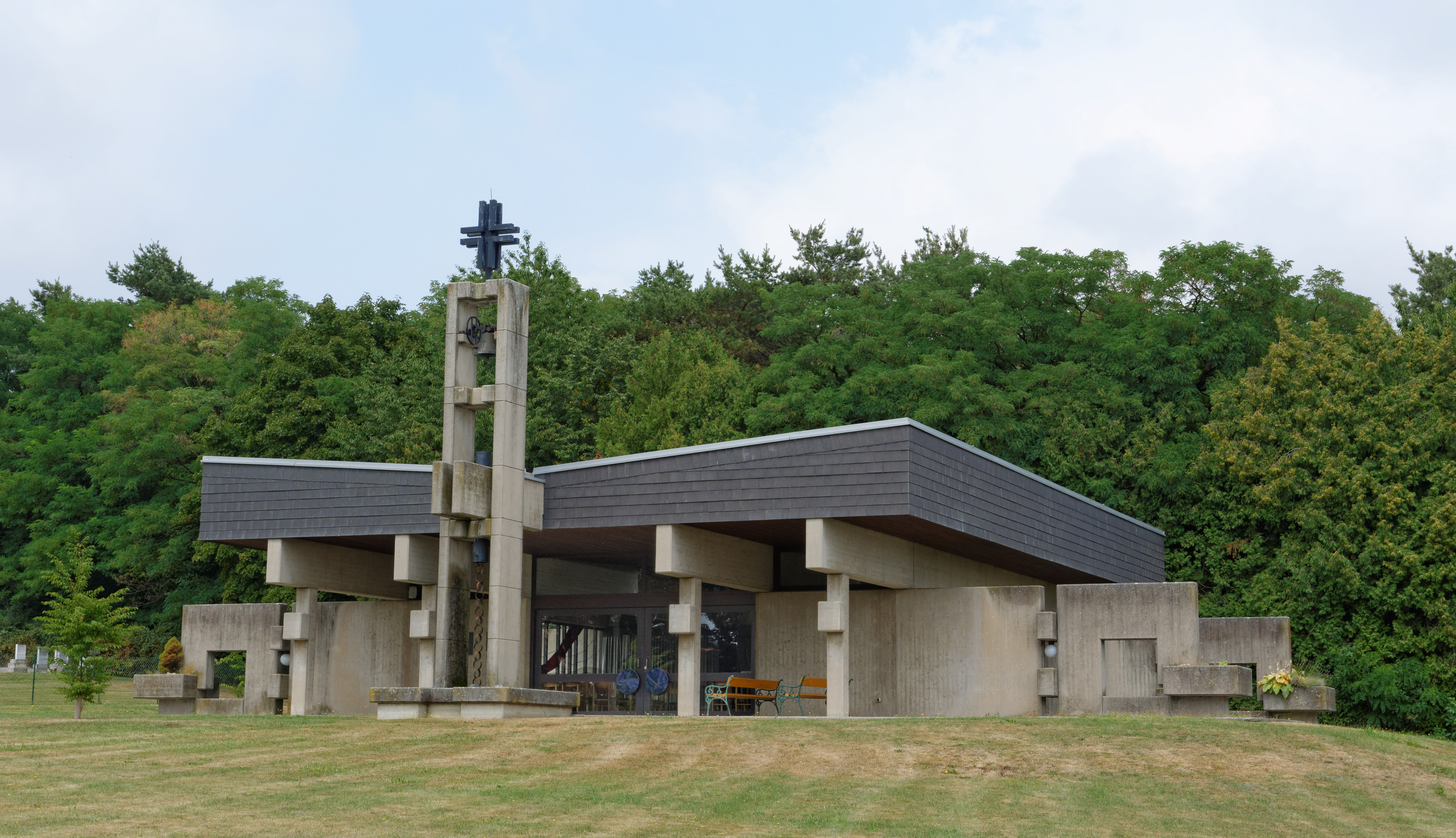 Mortuary at Kaisersdorf, Burgenland, Austria